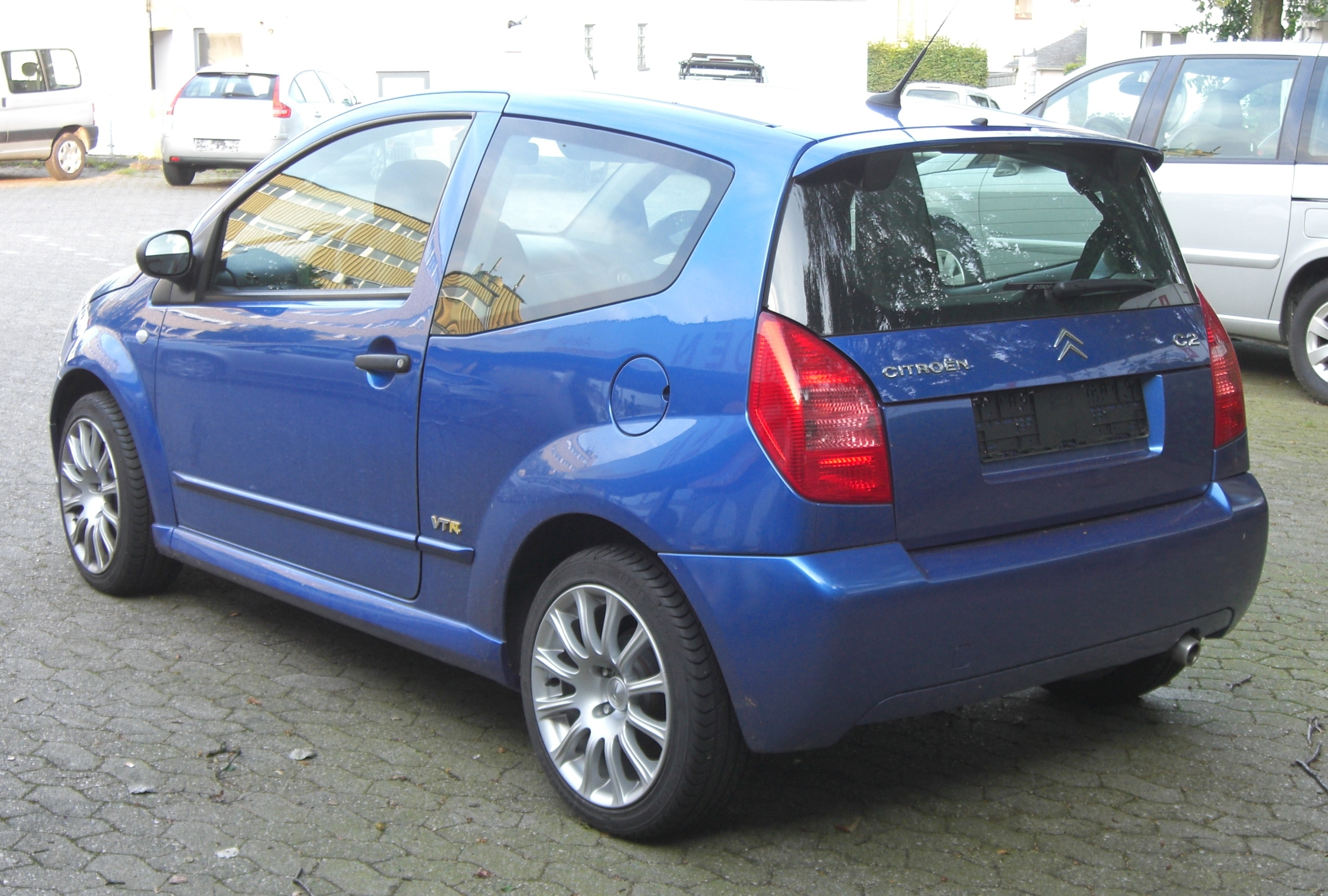 Citroën C2